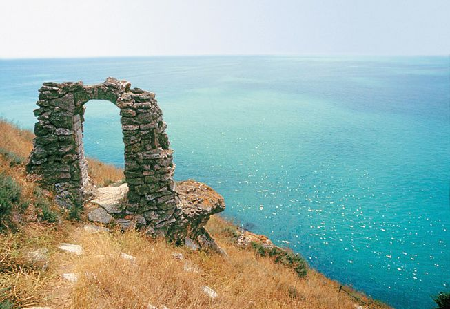 Kaliakra horn on the Bulgarian Black Sea coast